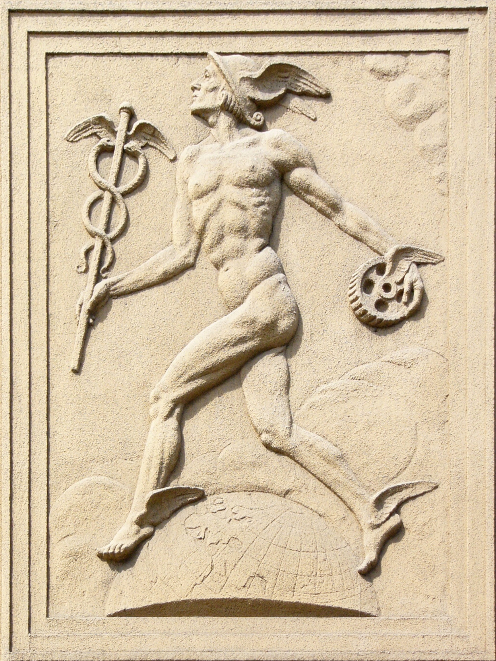 relief of Mercury (or of Hermes) at Obchodní akademie (Business Academy) building, at tř. Spojenců 11 in Olomouc. The God is wearing winged cap (petasus), wearing winged sandals (talaria), and carrying his staff caduceus and a winged wheel.